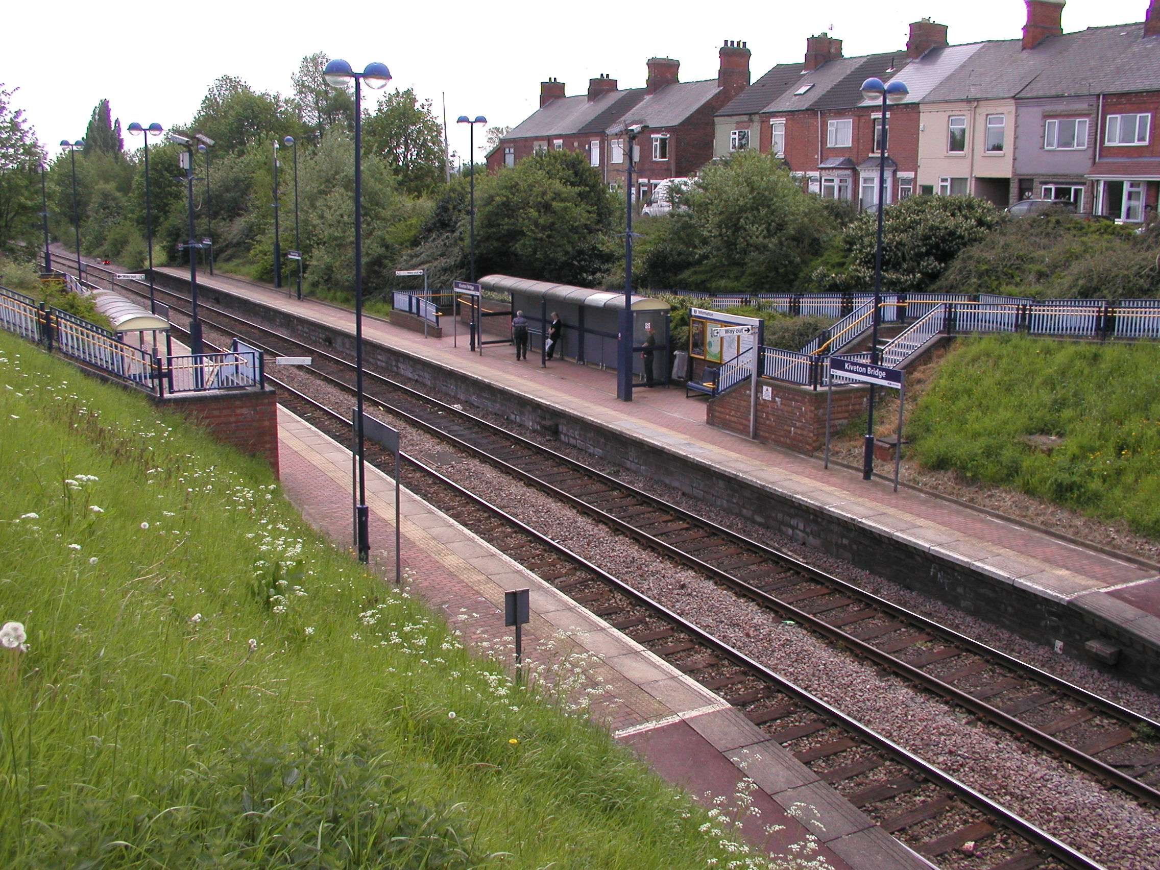 Overview of Kiveton Bridge railway station, South Yorkshire, looking east.